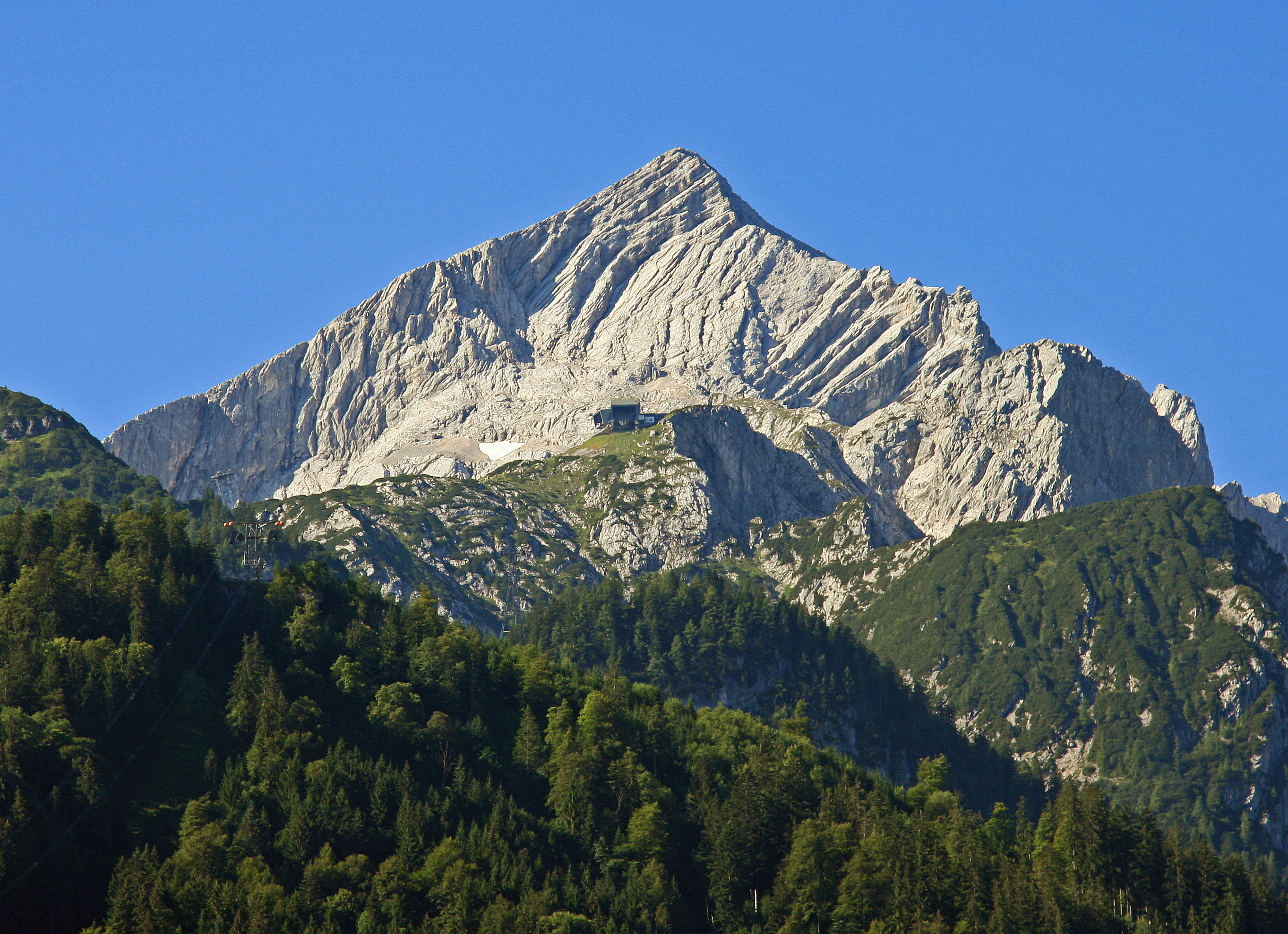 Alpspitze northface and cable car station Osterfelder